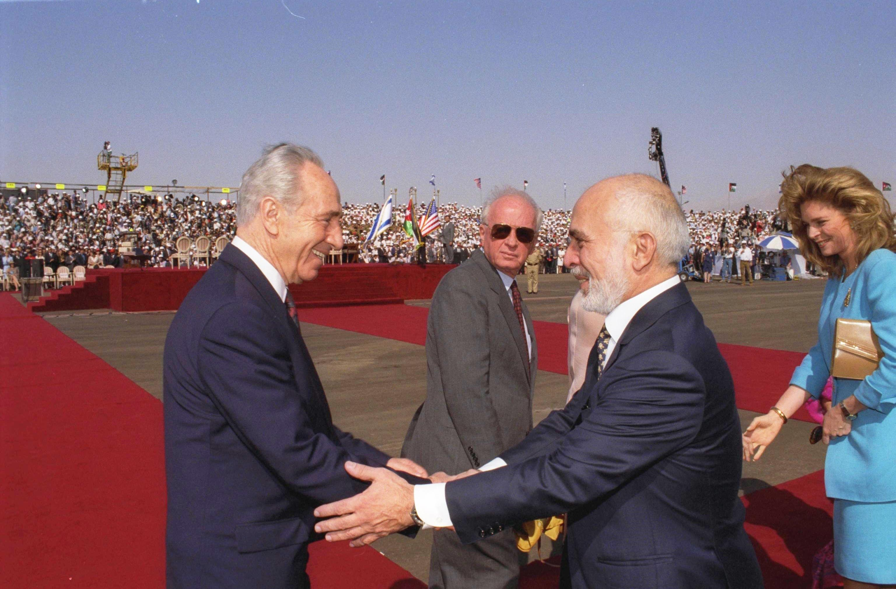 Foreign Minister Shimon Peres and King Hussein greet each other at the Arava border terminal prior to the signing of the Peace Treaty between their countries.